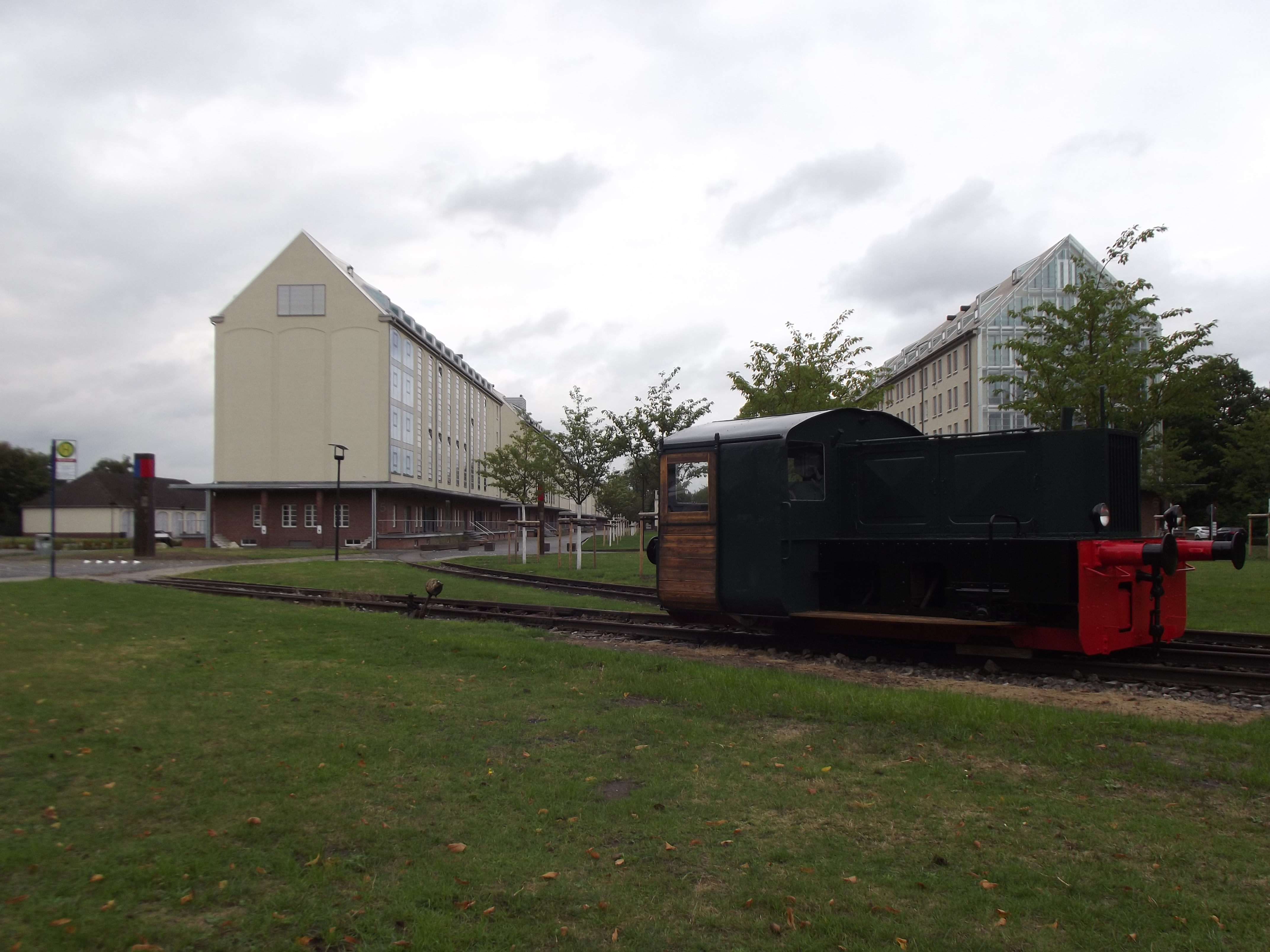 The pic shows "Speicherstadt", once a military facility which produced food for soldiers. The switcher would distribute the contents of train deliveries among the different buildings where then bread and other food was produced.